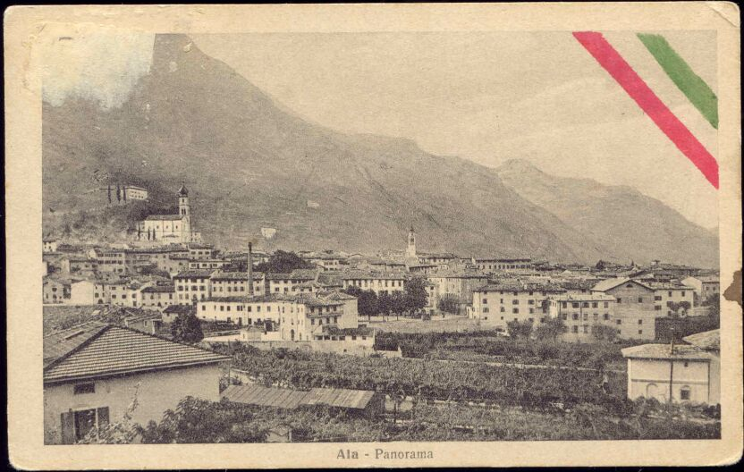 The once Austrian-Tyrolean city of Ala (Ahl or Halla in German) now located in Italy.